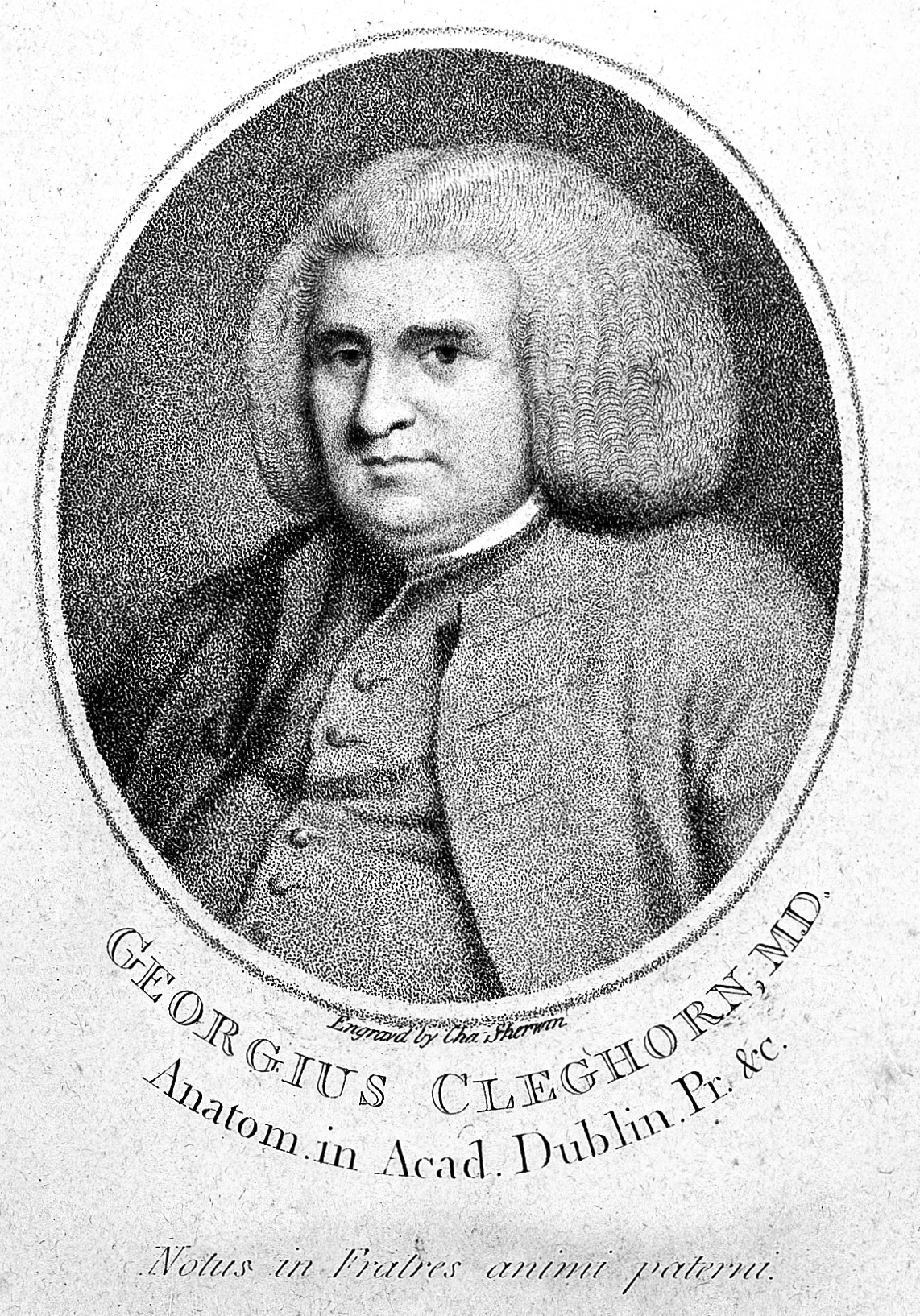 Portrait of George Cleghorn Iconographic Collections Keywords: epidemic diseases; George Cleghorn; C. Sherwin